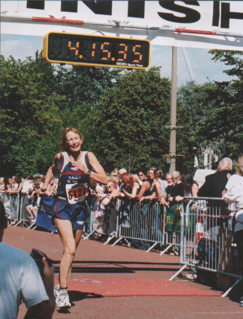 Rosie Swale Pope in Cardiff Marathon